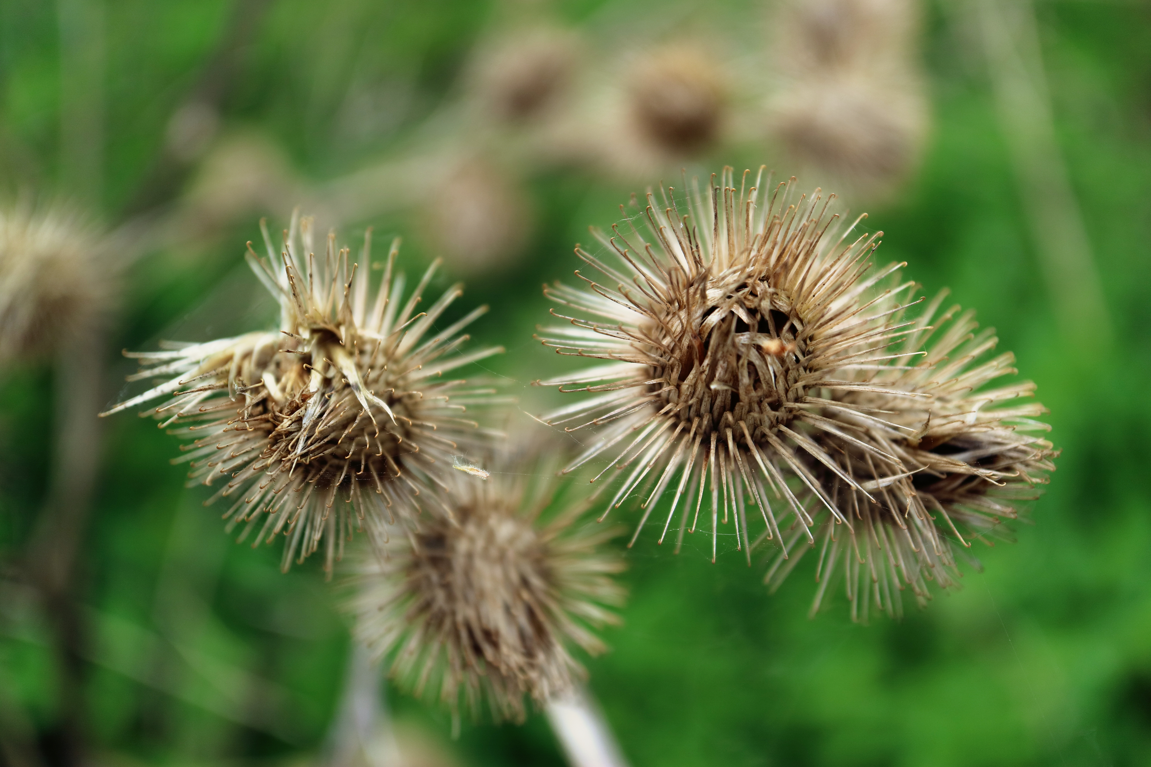 Macro photograph of burdock burs with hooks clearly visible.